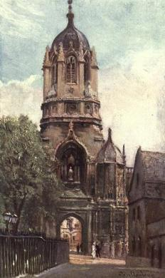 Tom Tower, Christ Church, Oxford.